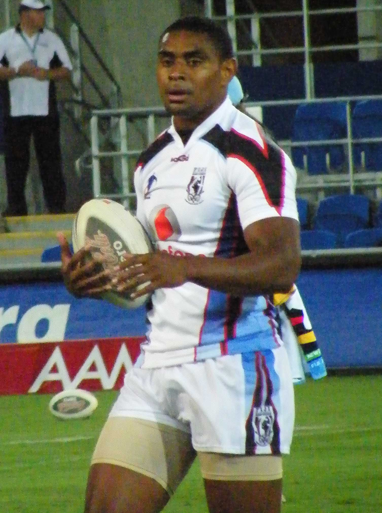 RLWC - Fiji v Ireland, Gold Coast 2008. Fijian winger Wes Naiqama.